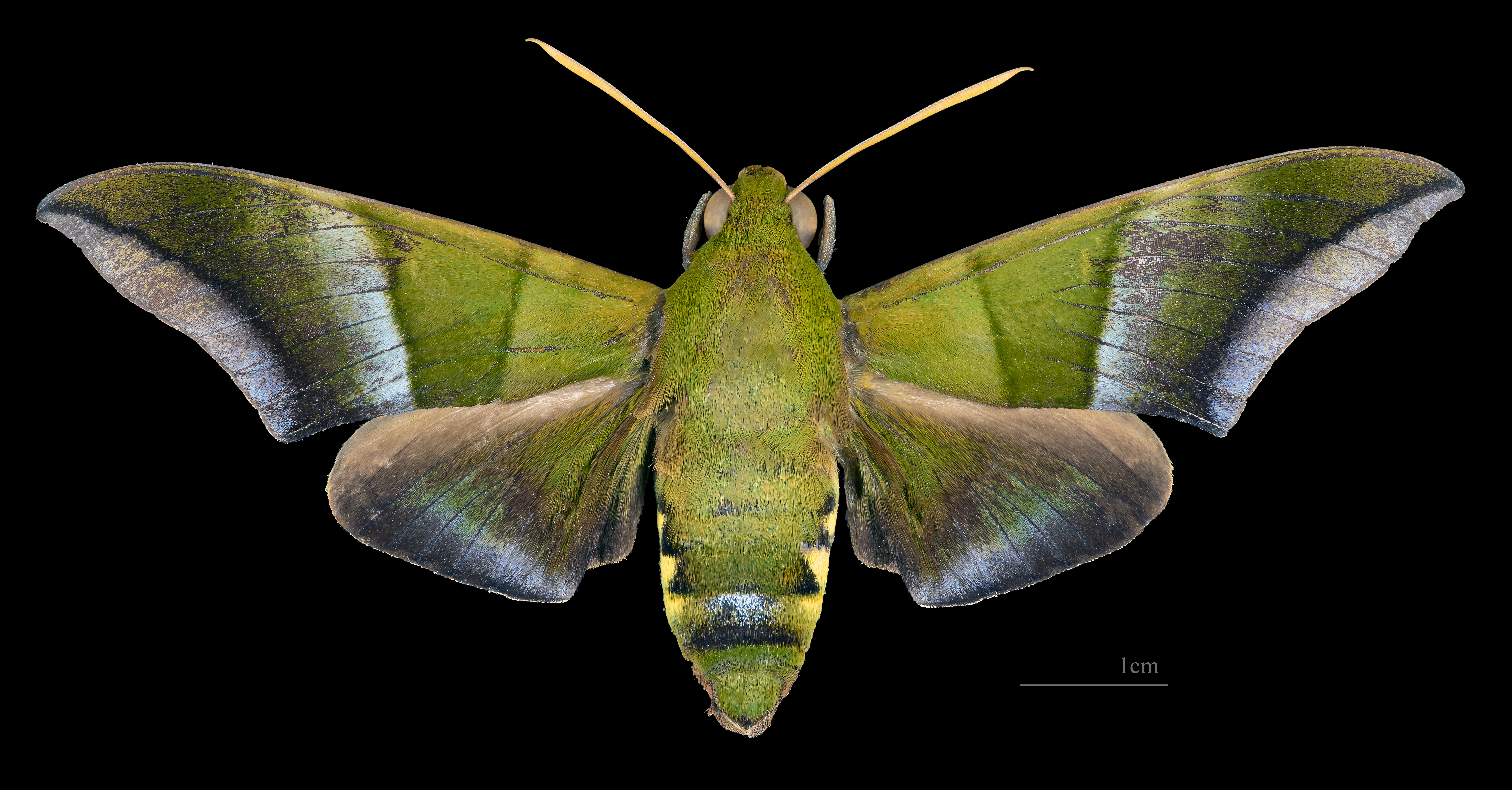 Oryba achemenides - Dorsal side Collection of the Mathematician Laurent Schwartz